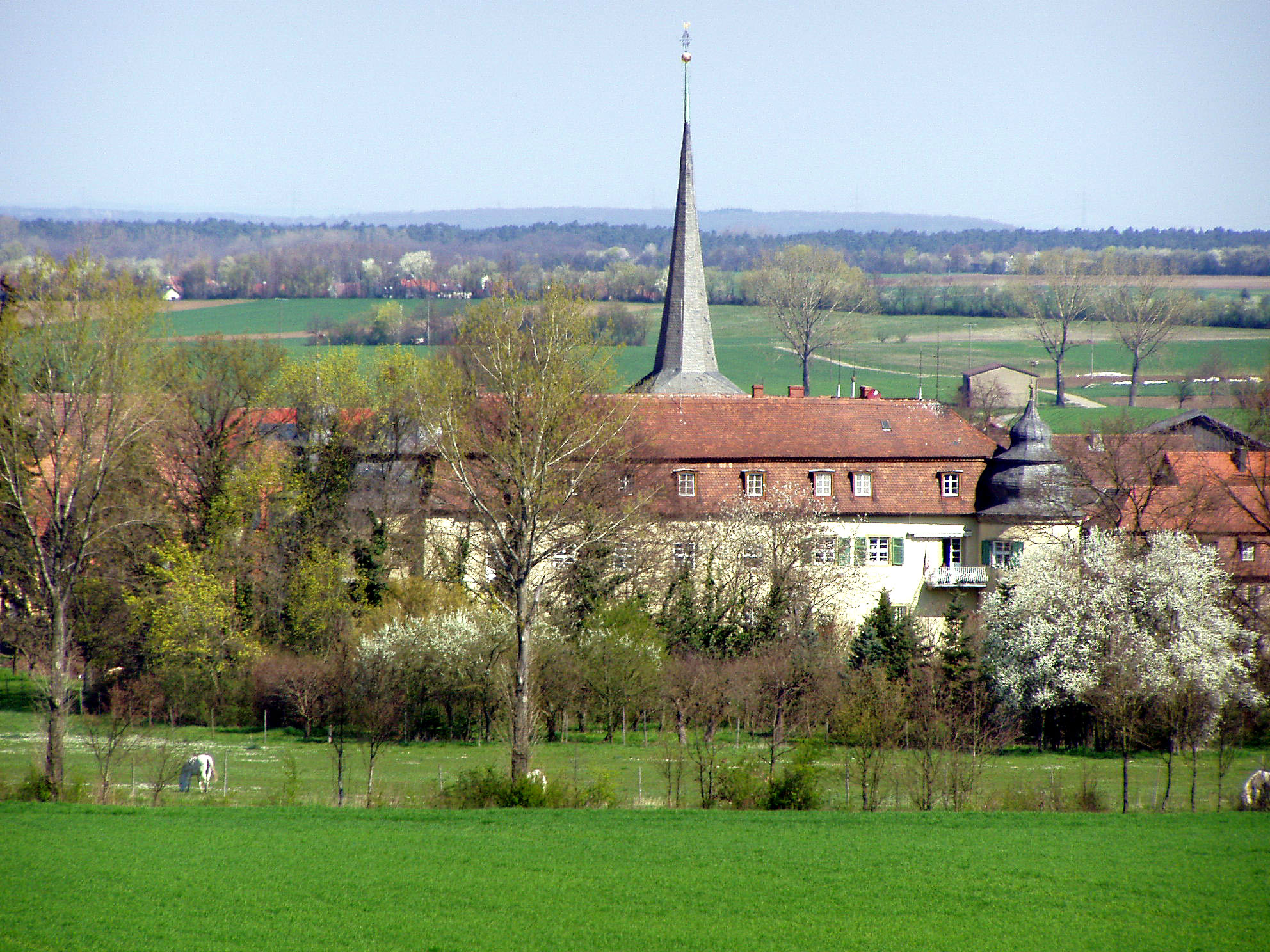 A picture of Crailsheim-Palace in Froehstockheim / Franconia